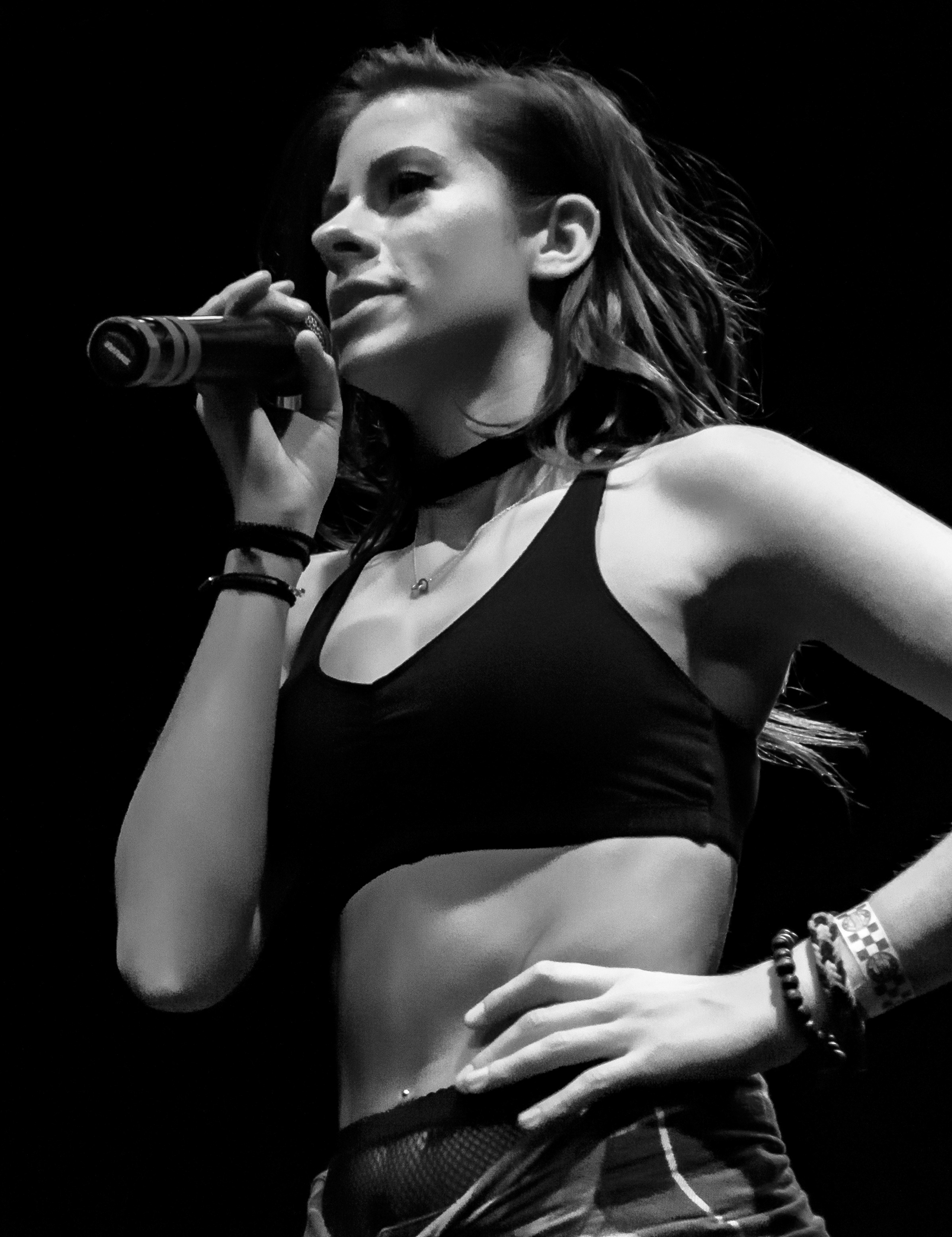 Andie Case at the Constellation Room at The Observatory OC